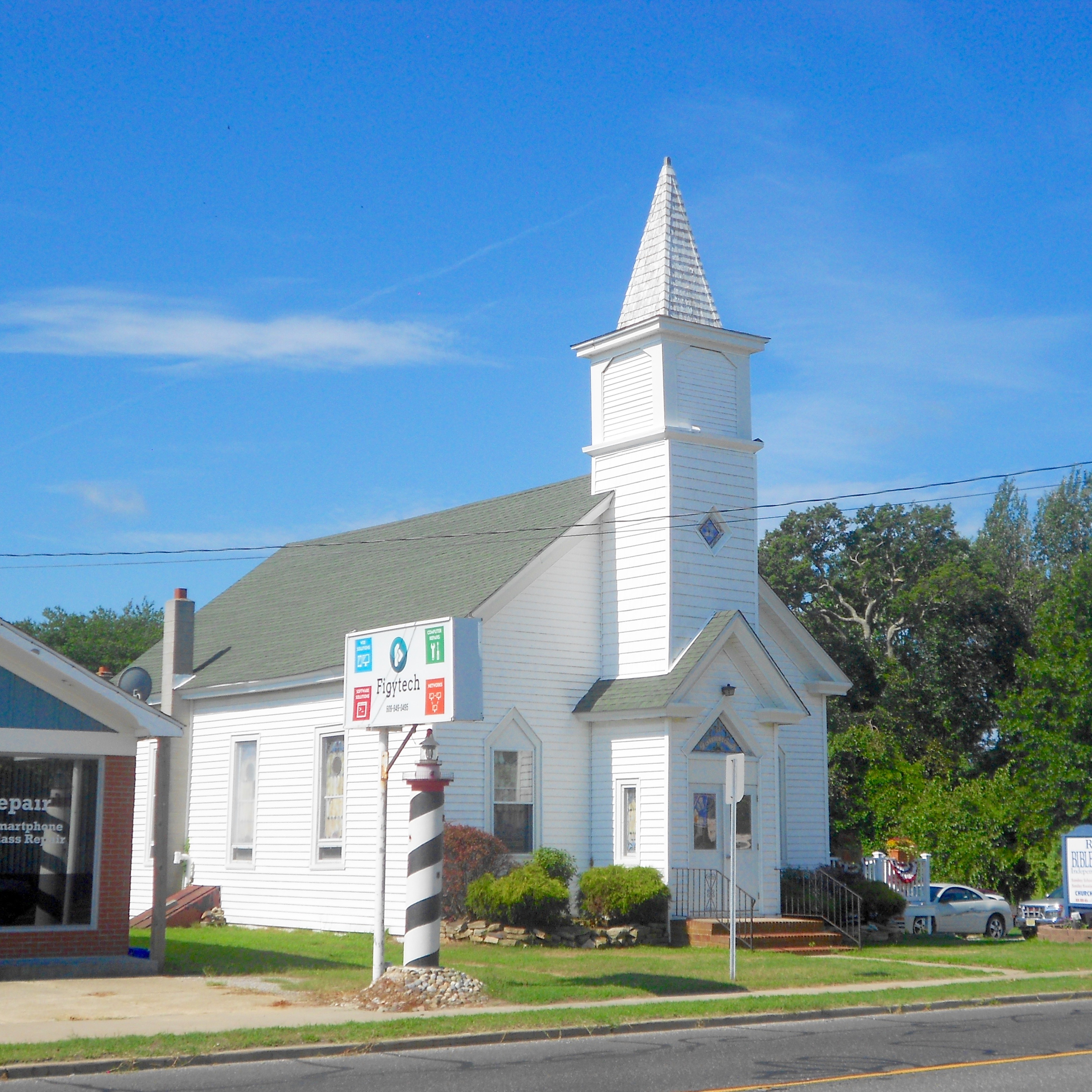 Rio Grande Bible Baptist Church in the unincorporated census-designated place, Rio Grande, Cape May County, New Jersey along SR 47 (Delsea Drive) across from the putt-putt place